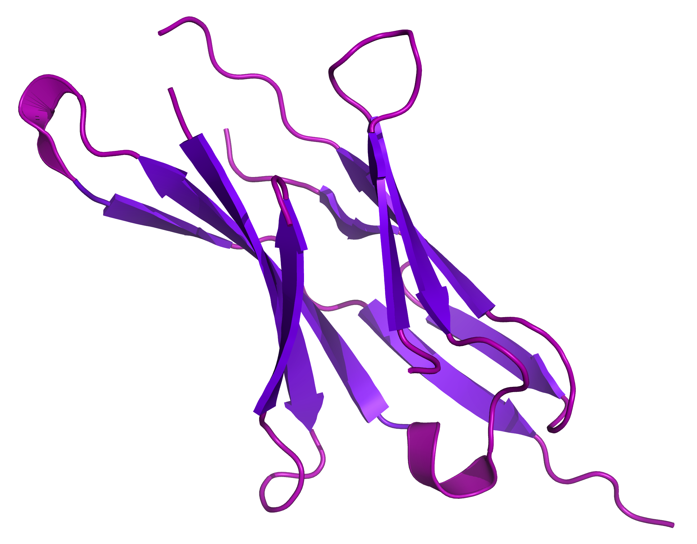 Ribbon diagram of the extracellular domain of programmed cell death protein 1 (PD-1). This structure was created with PyMOL.